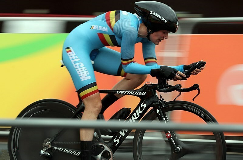 Cycling at the 2016 Summer Olympics – Women's road time trial